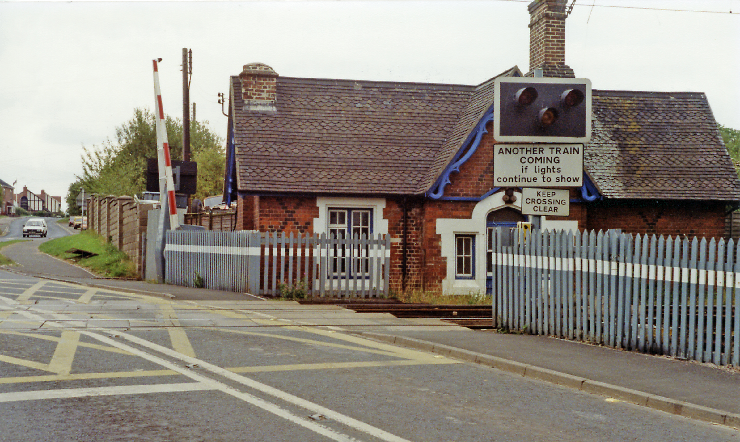 Aston-by-Stone station remains and level-crossing on B5027, 1990. View across the ex-NSR Stoke-on-Trent - Stone (to left) - Colwich (to right) main line, which connects with the WCML at Colwich and was electrified in 1966. The station was closed long ago: passengers 6/1/47, goods 13/8/62.